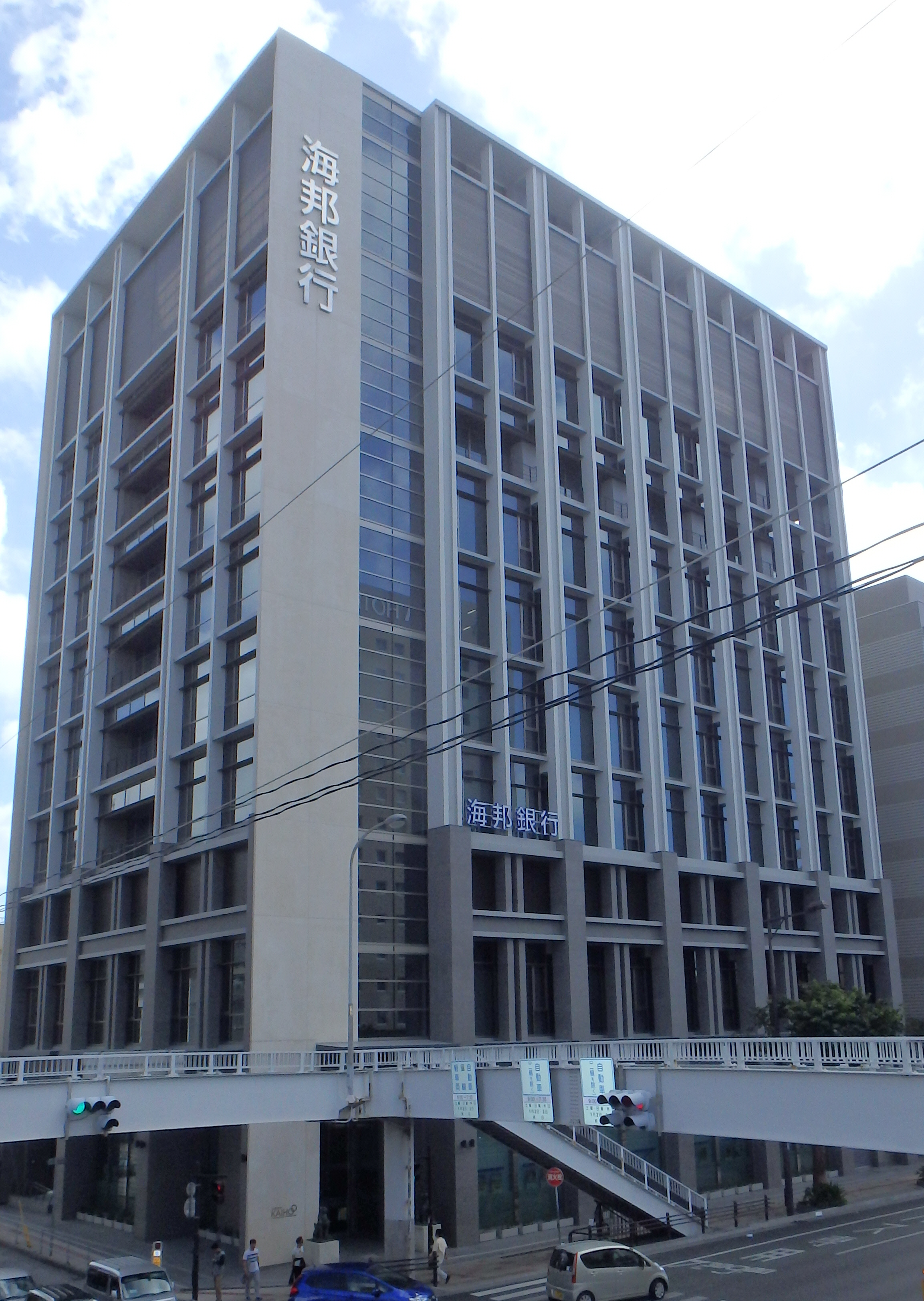 Head office of OKINAWA KAIHO BANK LTD.,Okinawa prefecture,Japan